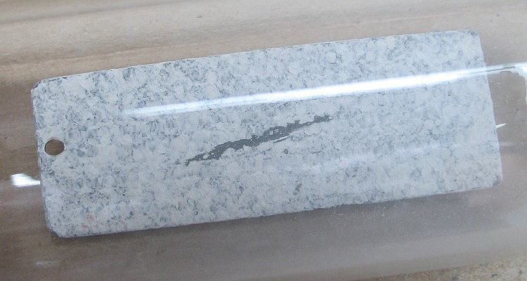 Thorium metal in ampoule, corroded